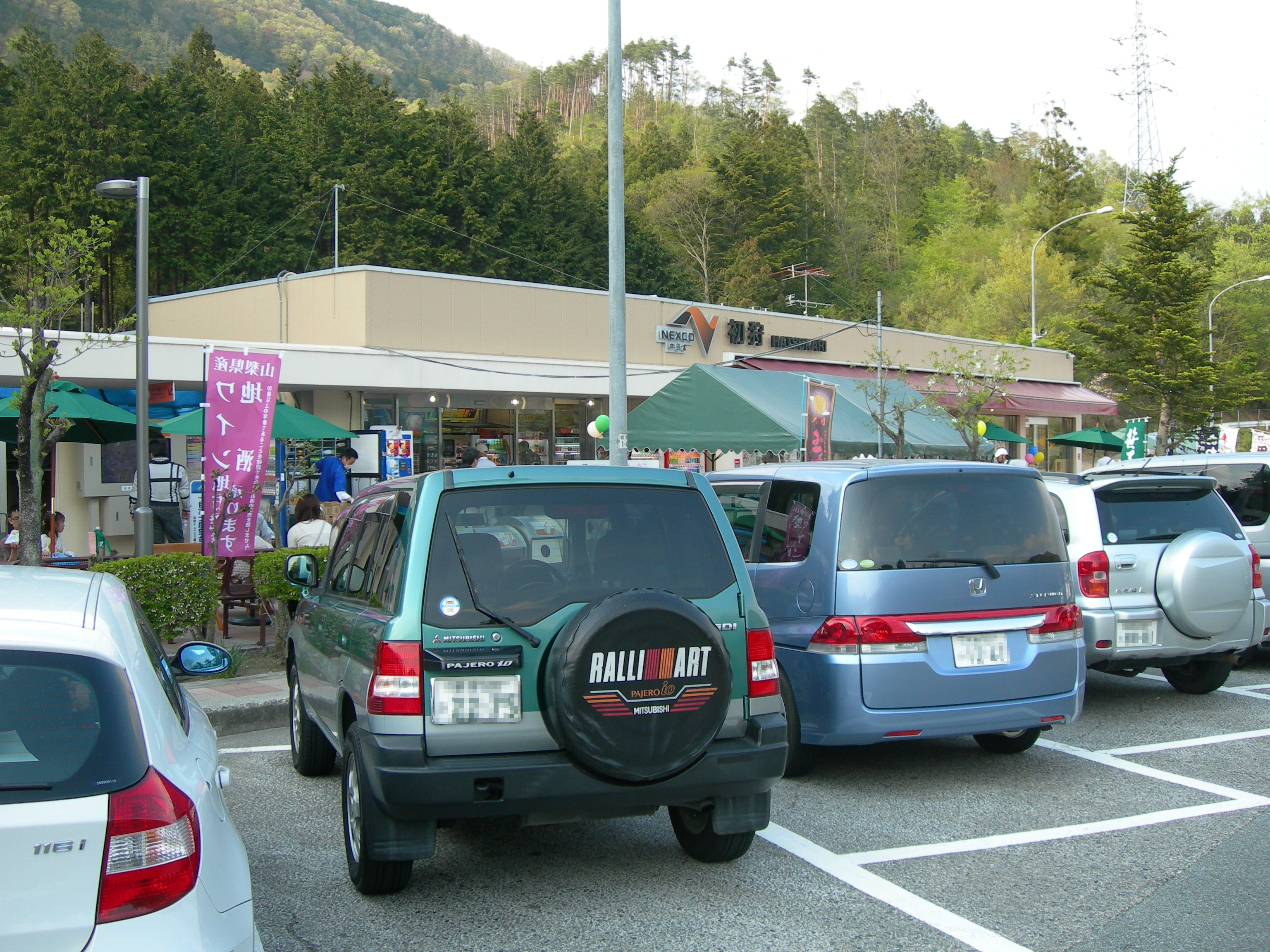 Hatsukari Parking Area on the Chuo Expressway inbound line (for Tokyo)